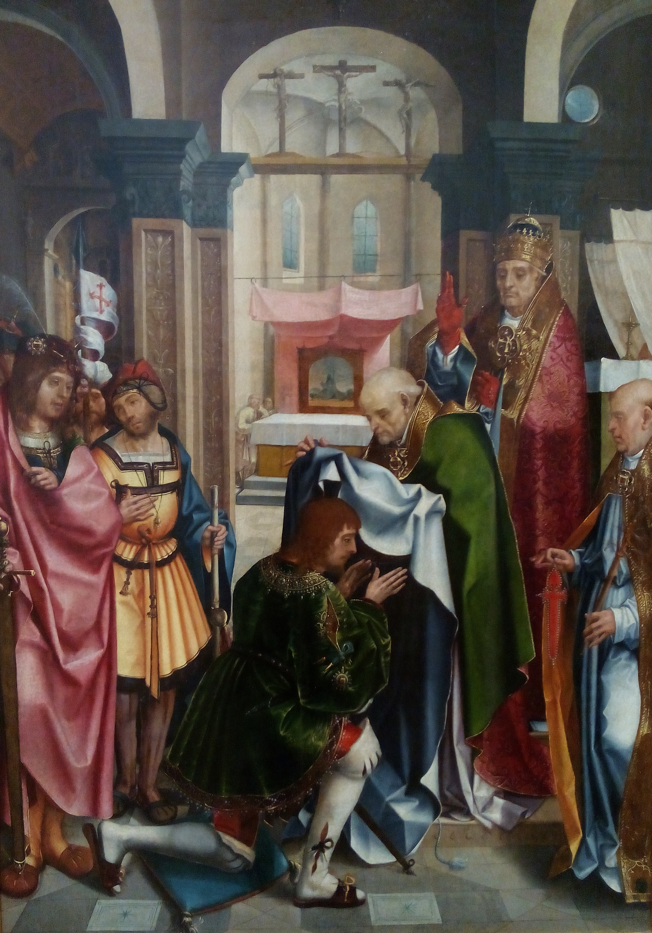 Investiture of a Master of the Order of the Saint James, from the Saint James Altarpiece (1520-25), by the Master of Lourinhã. Currently in the National Museum of Ancient Art, in Lisbon, Portugal.